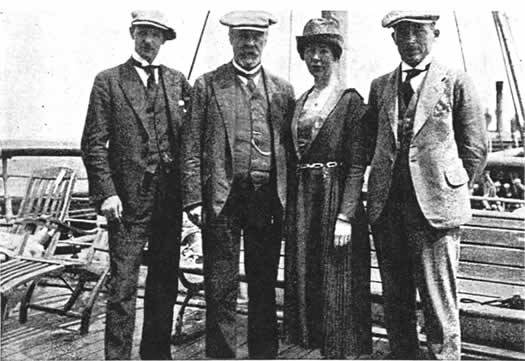 Participants of the 1920 De Geer Swedish geological expedition to North America (left to right) Ragnar Lidén, Gerard De Geer, Ebba Hult De Geer, and Ernst Antevs (from De Geer, 1940).